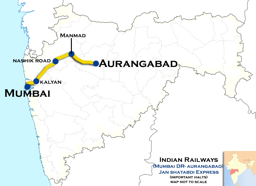 Janshatabdi Express (Mumbai - Aurangabad) Route map